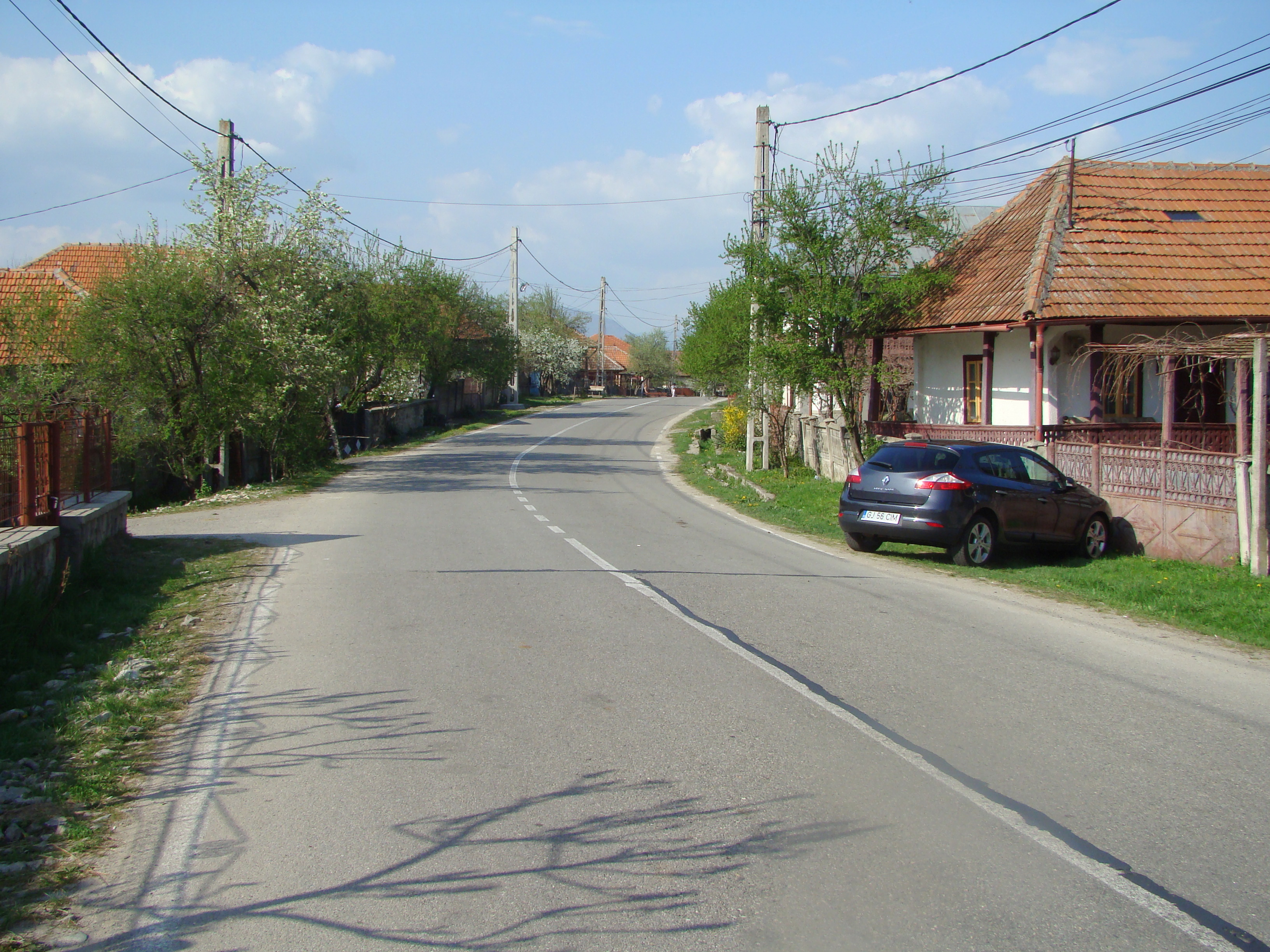 Brădiceni, Gorj county, Romania